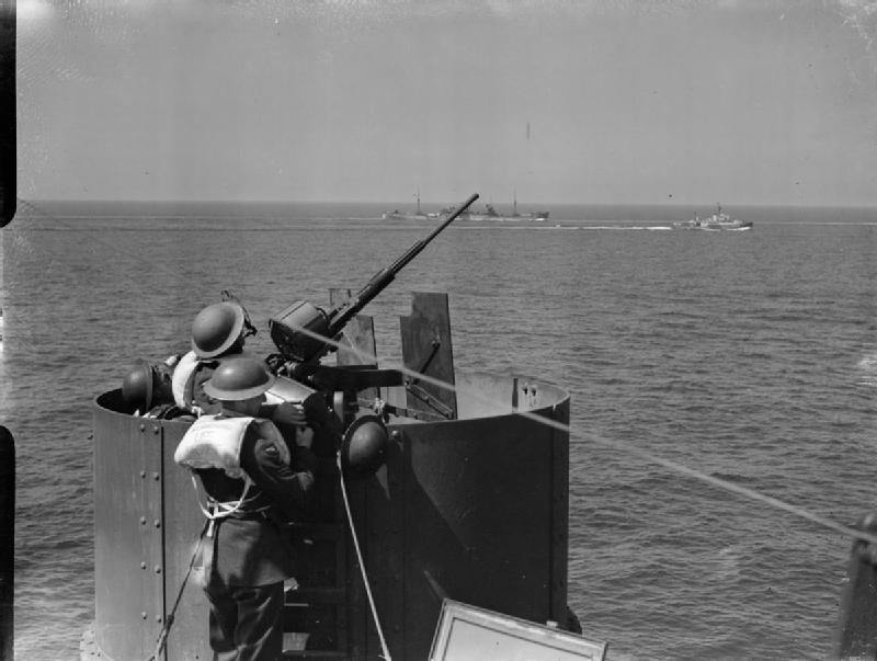 The Merchant Navy during the Second World War 20 mm Oerlikon anti aircraft gunners on board a merchant ship between a lull in enemy attacks on a Malta bound convoy that got through. Other ships can be seen in the distance.